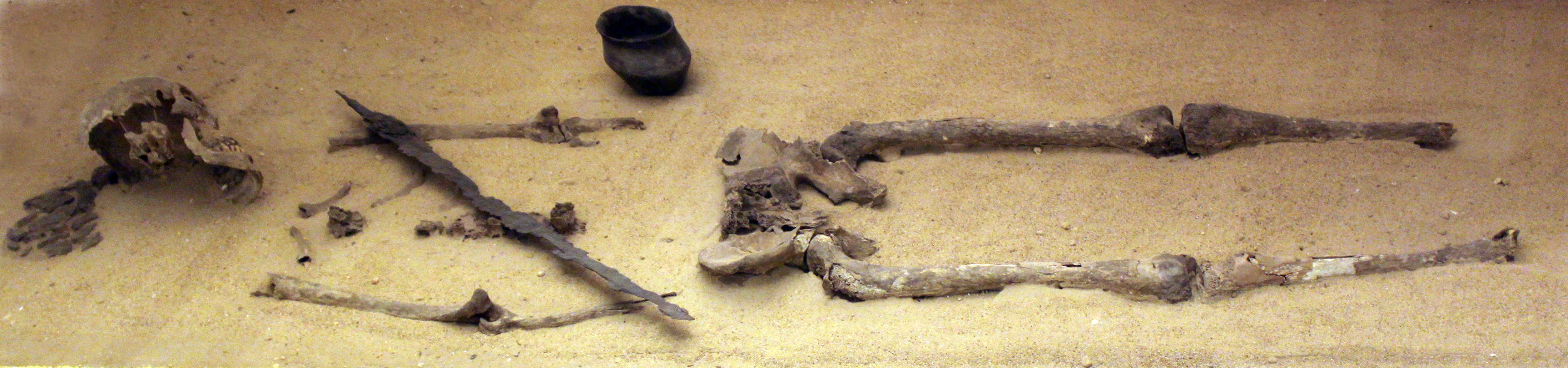 Neukölln Rider grave; beginning of the 6th Century AD, found 1912 in the Körnerpark, Berlin-Neukölln. Shown at Märkisches Museum Berlin.